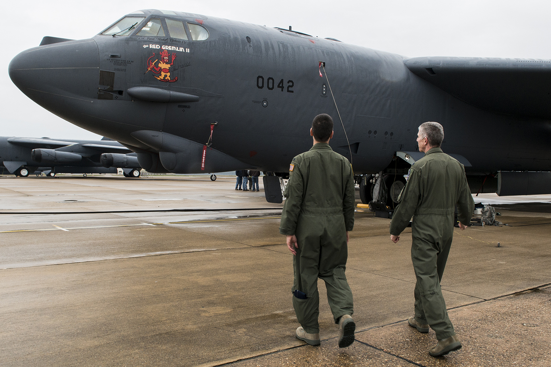 U.S. Air Force Col. Paul Tibbets IV (left) gets a closer look at the nose art on a 93rd Bomb Squadron B-52H Stratofortress, which resembles the nose art flown on the side of a B-17 bomber his grandfather piloted during World War II, at Barksdale Air Force Base, La., Nov 15, 2013. Brig. Gen. Paul Tibbets Jr., was best known for his atomic mission in the B-29 during World War II.